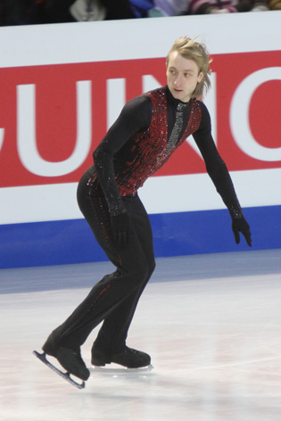 Evgeni Plushenko at the 2010 European Figure Skating Championships.